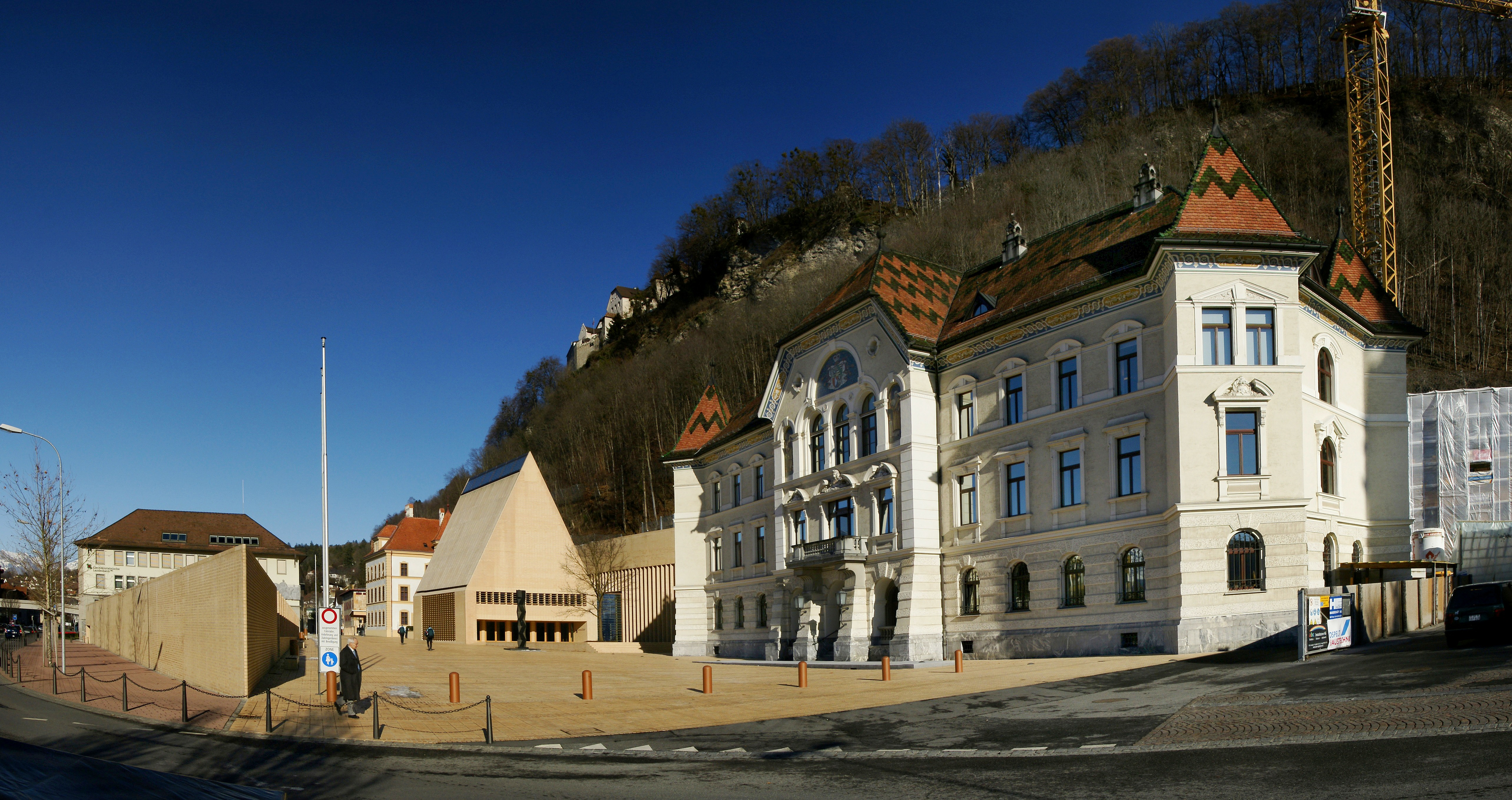 Regierungsgebäude (Government Building), Vaduz, Liechtenstein - Seat of Government and Parliament.